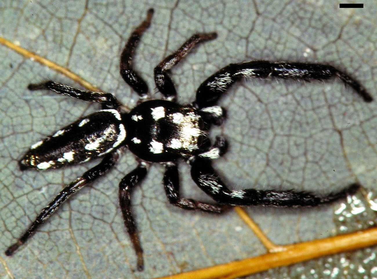 Male Marpissa bina jumping spider from Gainesville, Alachua County, Florida, USA